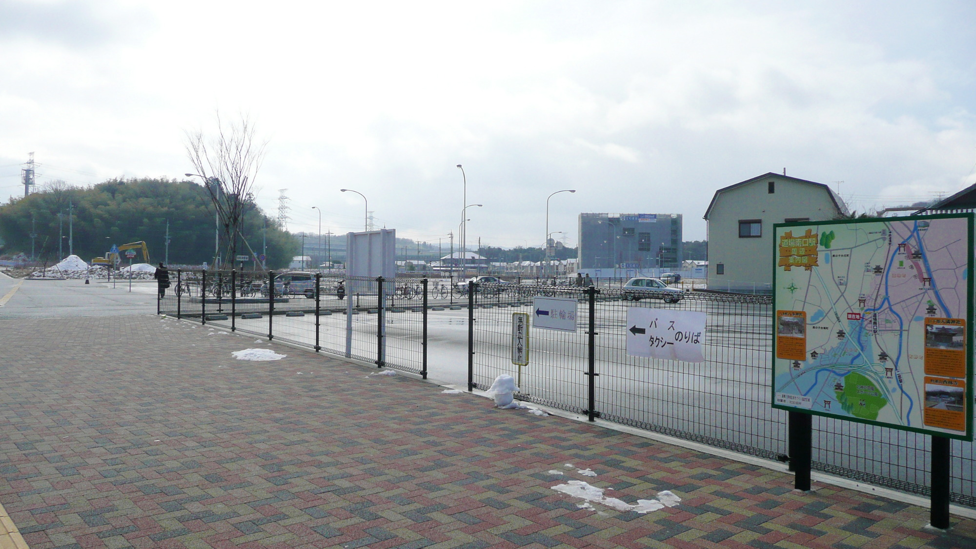 Kobe Electric Railway Dojo-Minamiguchi Station plaza